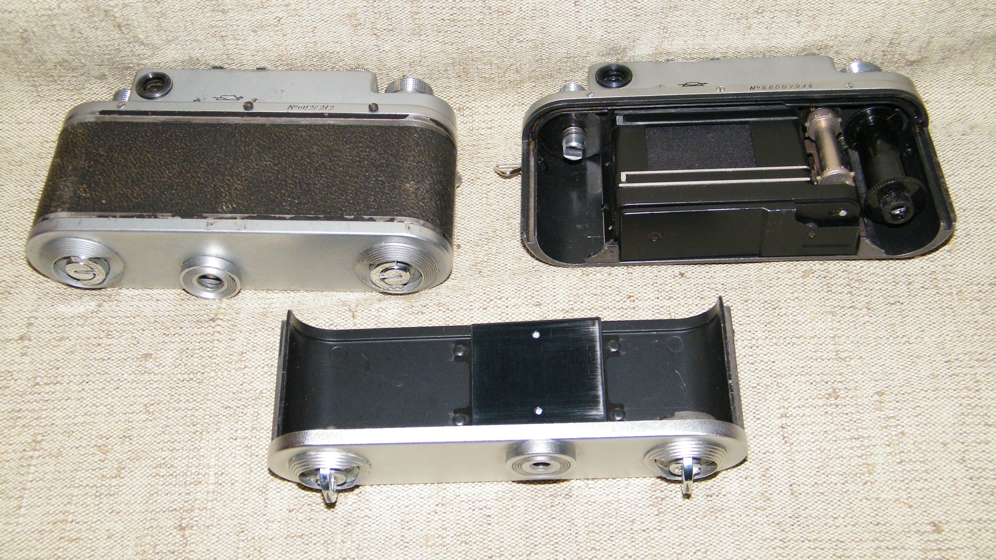 Фотоаппарат "Мир" и "Зоркий-4"